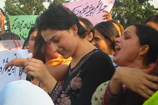 A Pakistani hijra at a protest between two hijra groups from Islamabad and Rawalpindi.